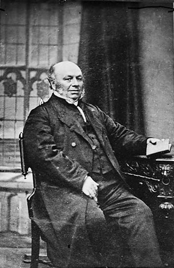 Released for use on Wikipedia by the National Library of Wales from the John Thomas Collection) For more information see User:Paul Bevan.